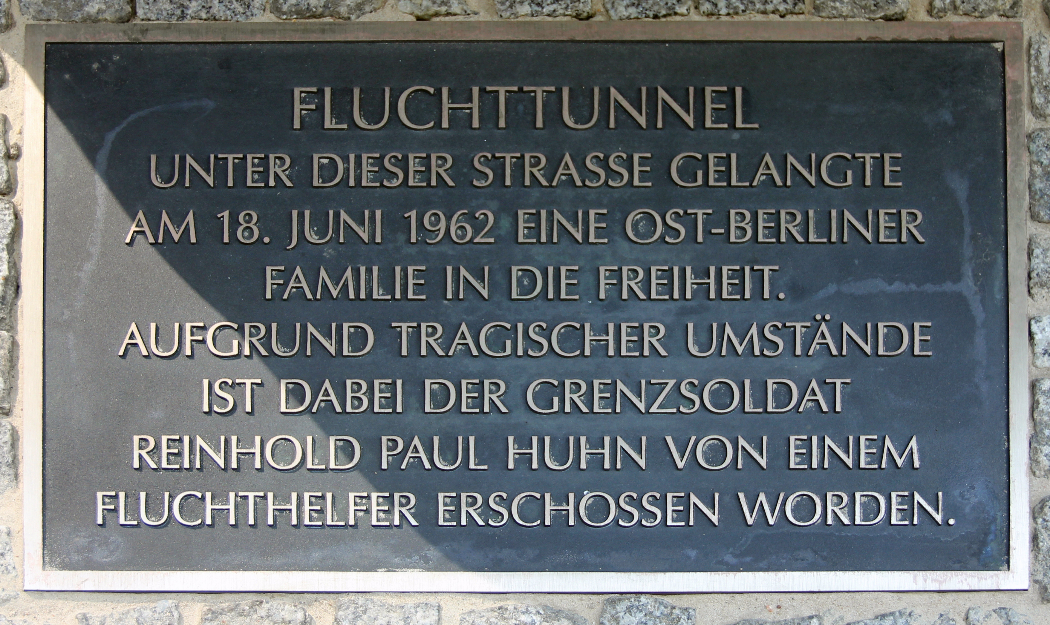 Memorial plaque, Fluchttunnel, Zimmerstraße 54, Berlin-Mitte, Deutschland